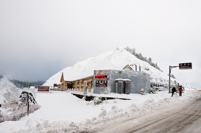 Hehuan Lodge in the snow.中文（中国大陆）: 雪中的合欢山庄。中文（台灣）: 雪中的合歡山莊。